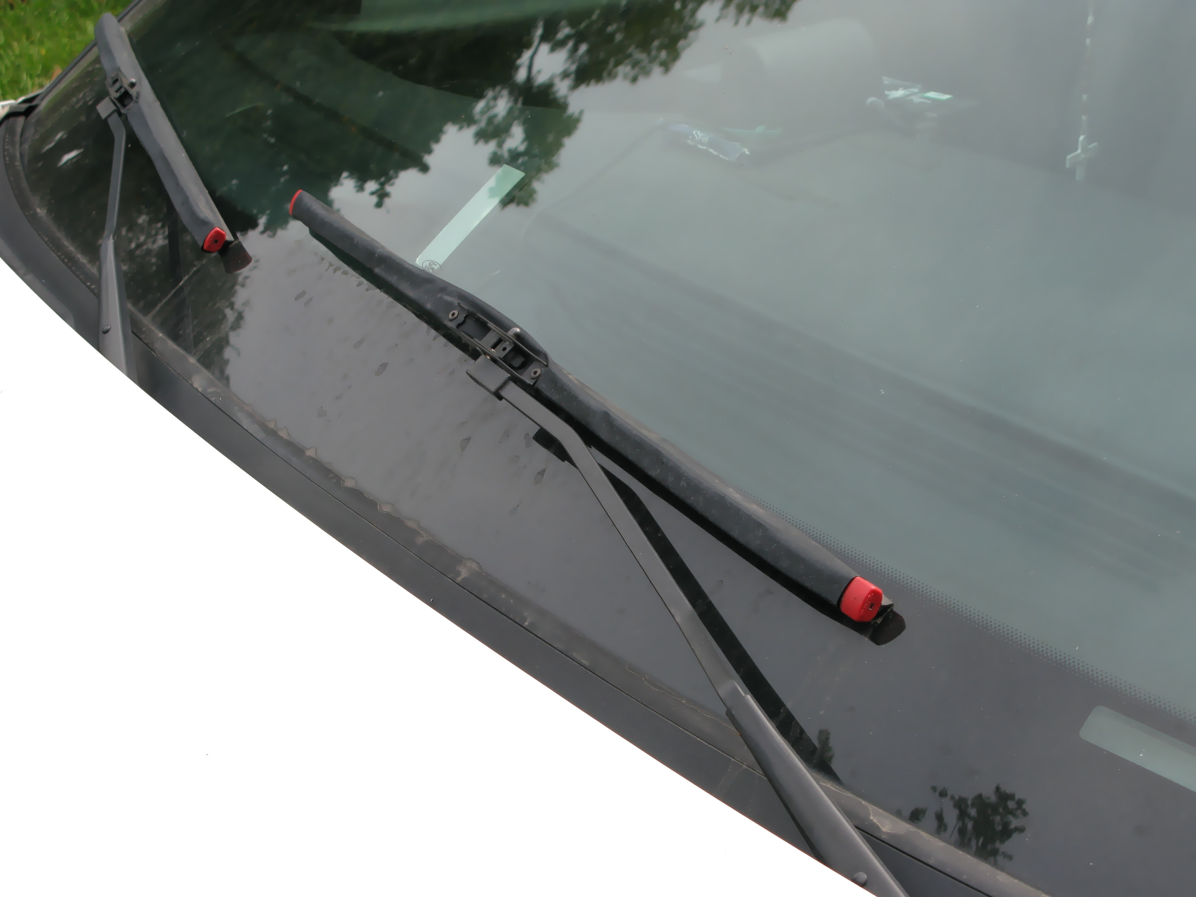 Part of windshield & wipers